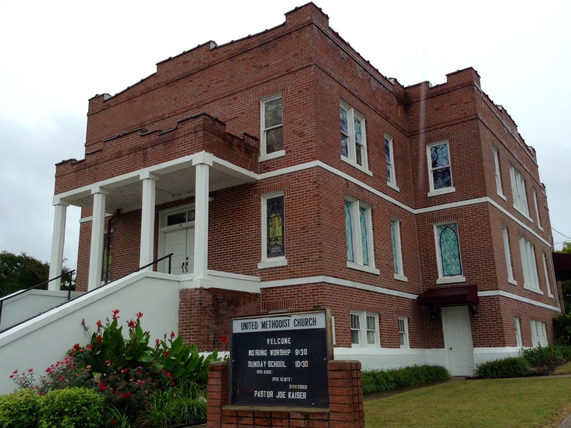 Imboden Methodist Episcopal Church, South, 113 Main St. Imboden